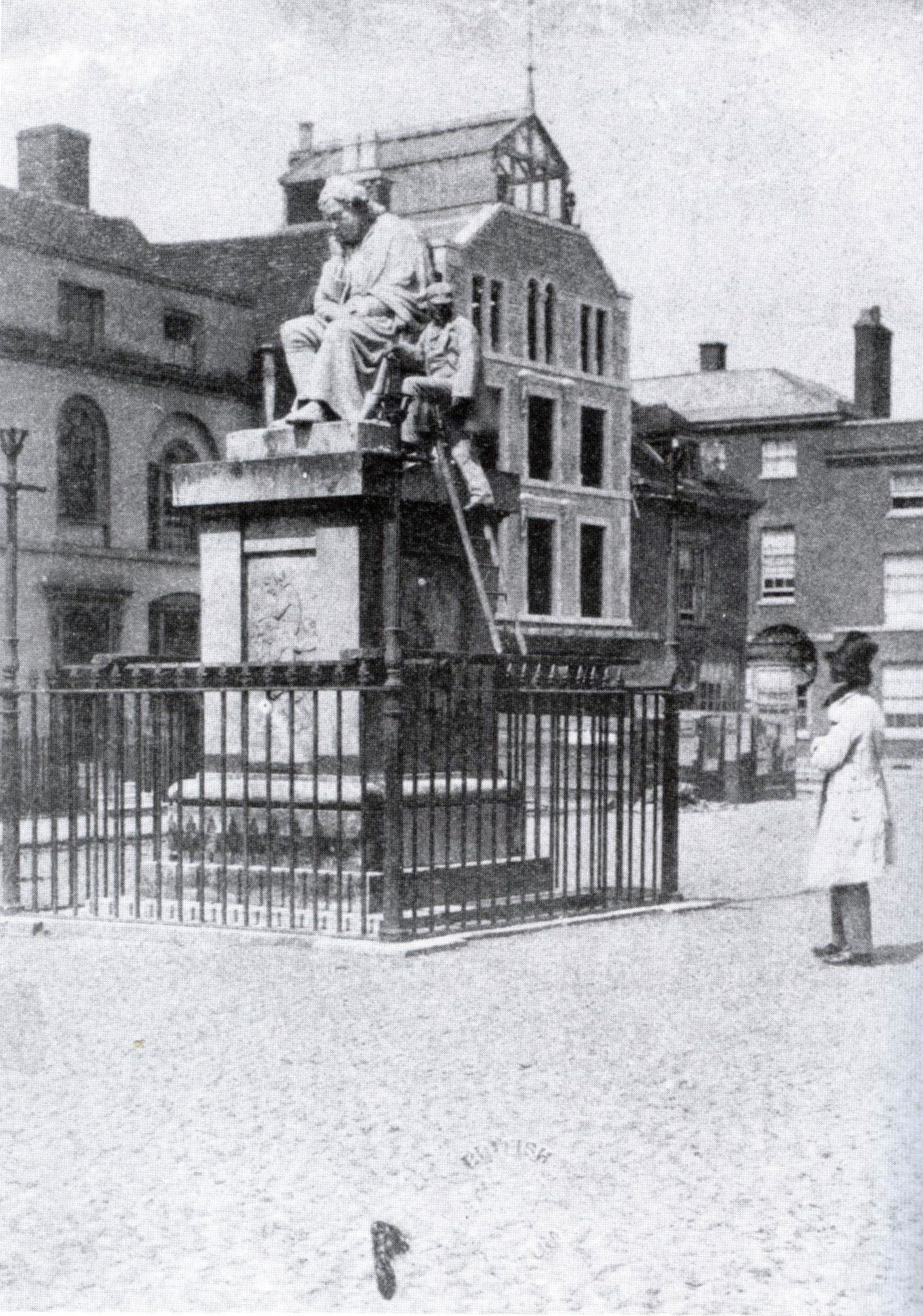 In 1859 the sculptor of the Samuel Johnson statue came back to Lichfield to touch up his statue. By this time he had taken up photography to assist his work, and here he set up his own camera for the purpose. This is one of the oldest photographs of Lichfield.